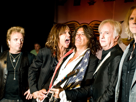 Aerosmith debuted their guitar hero add on.